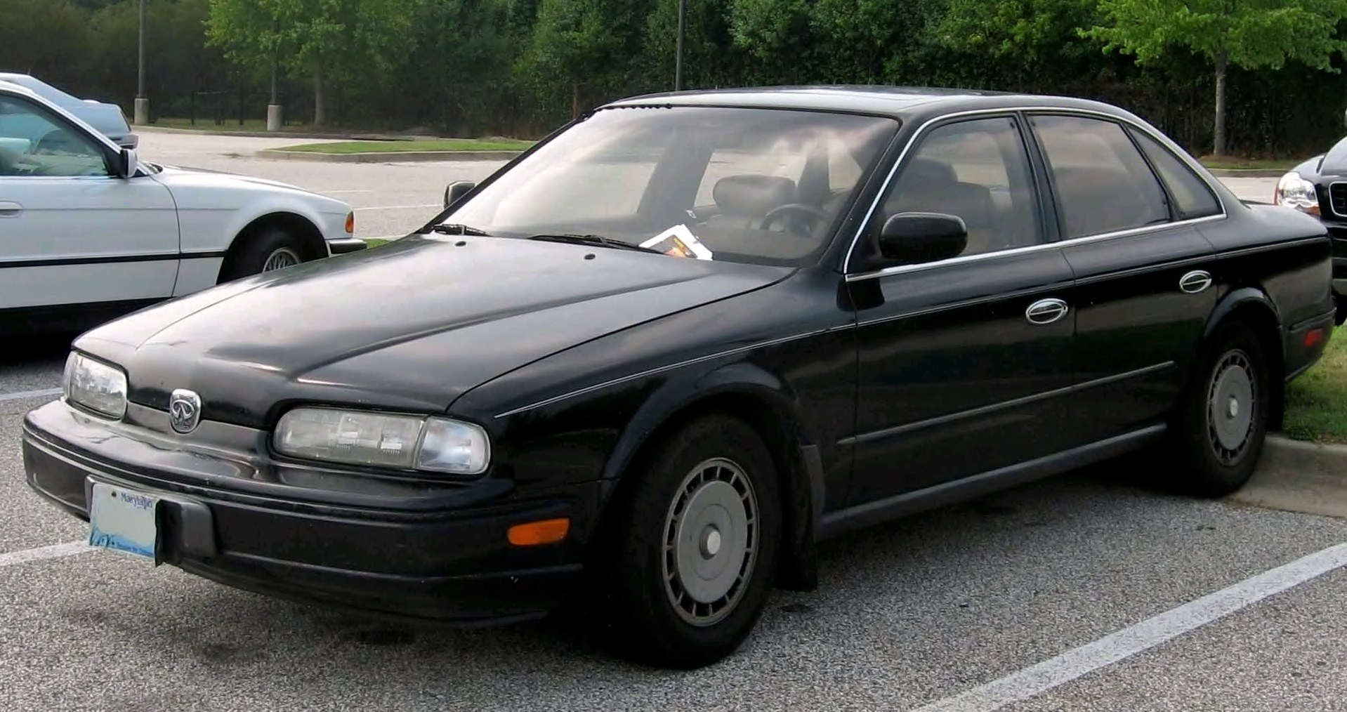 1990-1993 Infiniti Q45 photographed in USA.